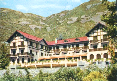 Villavicencio Hotel in Mendoza Province, Argentina. The hotel was opened in 1940; but was closed by the dictatorship in 1978. It was declared a National Historic Monument on June 25, 2013.